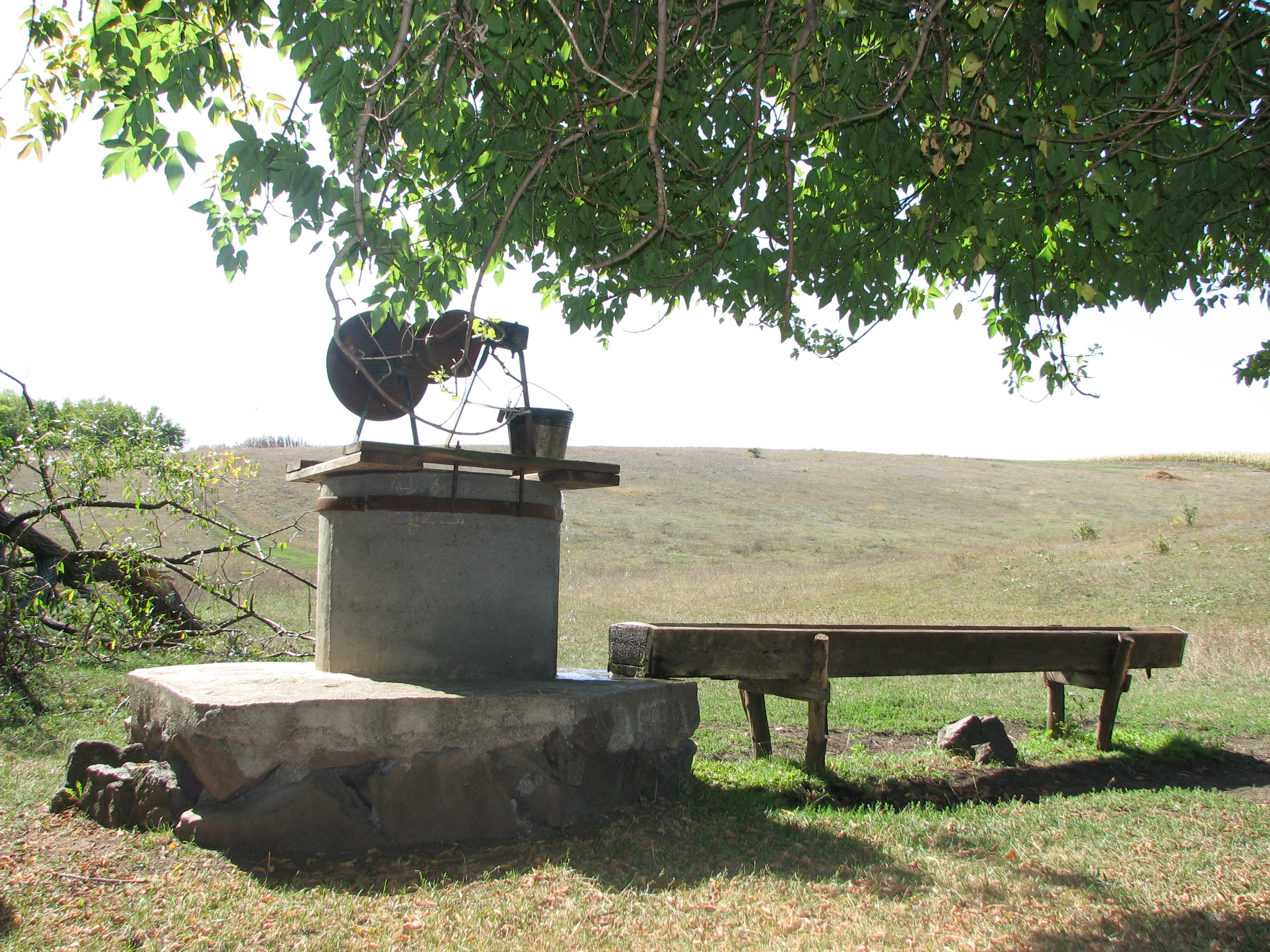 Гідрологічна памятка природи місцевого значення